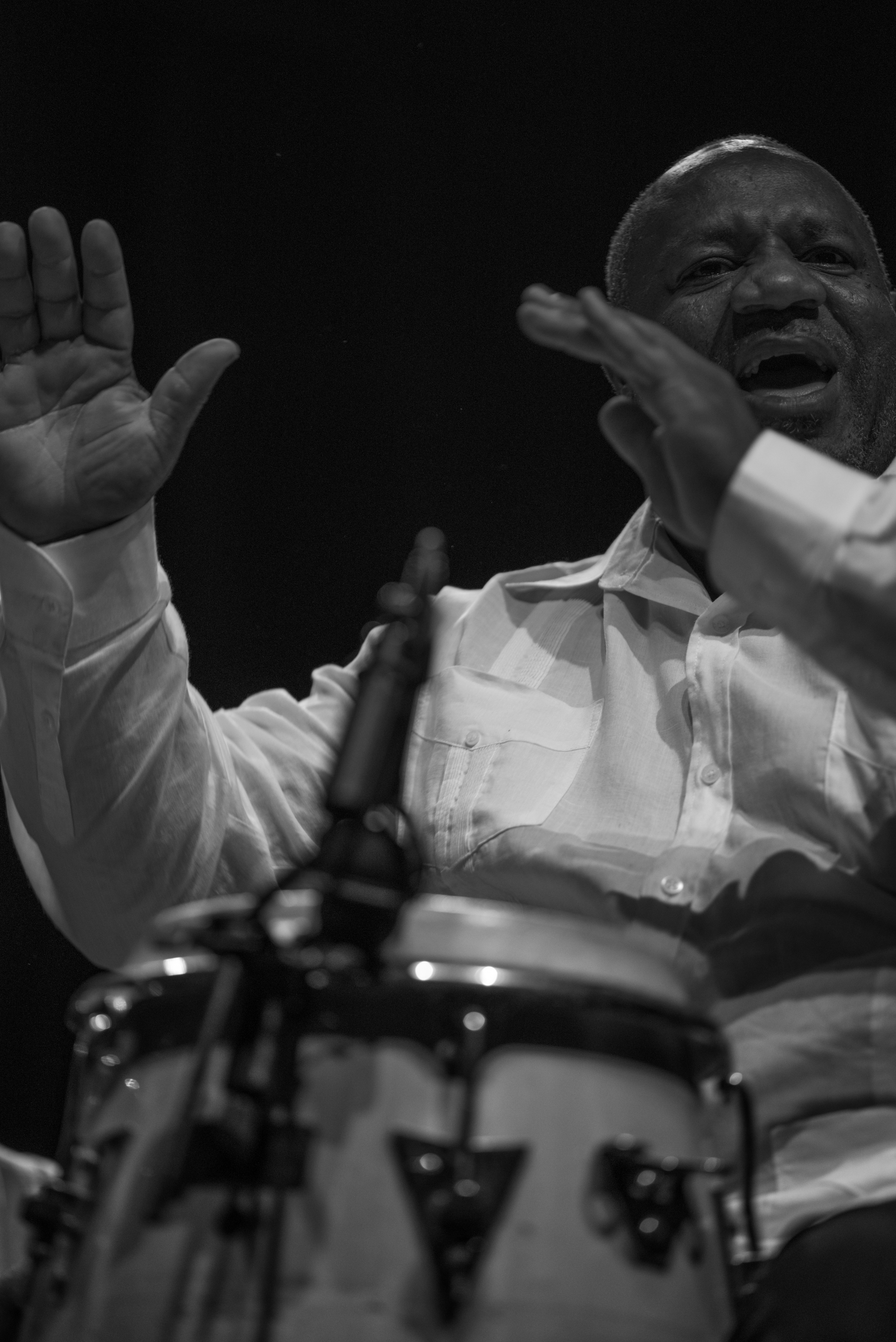 19º FESTIVAL INTERNACIONAL DE JAZZ DE PUNTA DEL ESTE Luis Perdomo Cuarteto Johnattan Blake / batería Hans Glawischnig /bajo Luis Perdomo / piano Mark Shim / saxo tenor – wind controller Martin Wind Cuarteto Homenaje a Bill Evans Bill Cunliffe /piano Joe La Barbera / batería Martin Wind / bajo Scott Robinson / saxotenor Paquito D'Rivera presenta: Homenaje a Chano Pozo Alex Brown /piano Eric Doob / batería Zachary Brown / bajo Pernell Saturnino /percusión Diego Urcola / trompeta Paquito D'Rivera / saxo alto FINCA EL SOSIEGO, Maldonado, Uruguay Camera: NIKON D810 Lens: Zeiss Apo Sonnar T* 2/135 ZF.2 0 ISO: 800